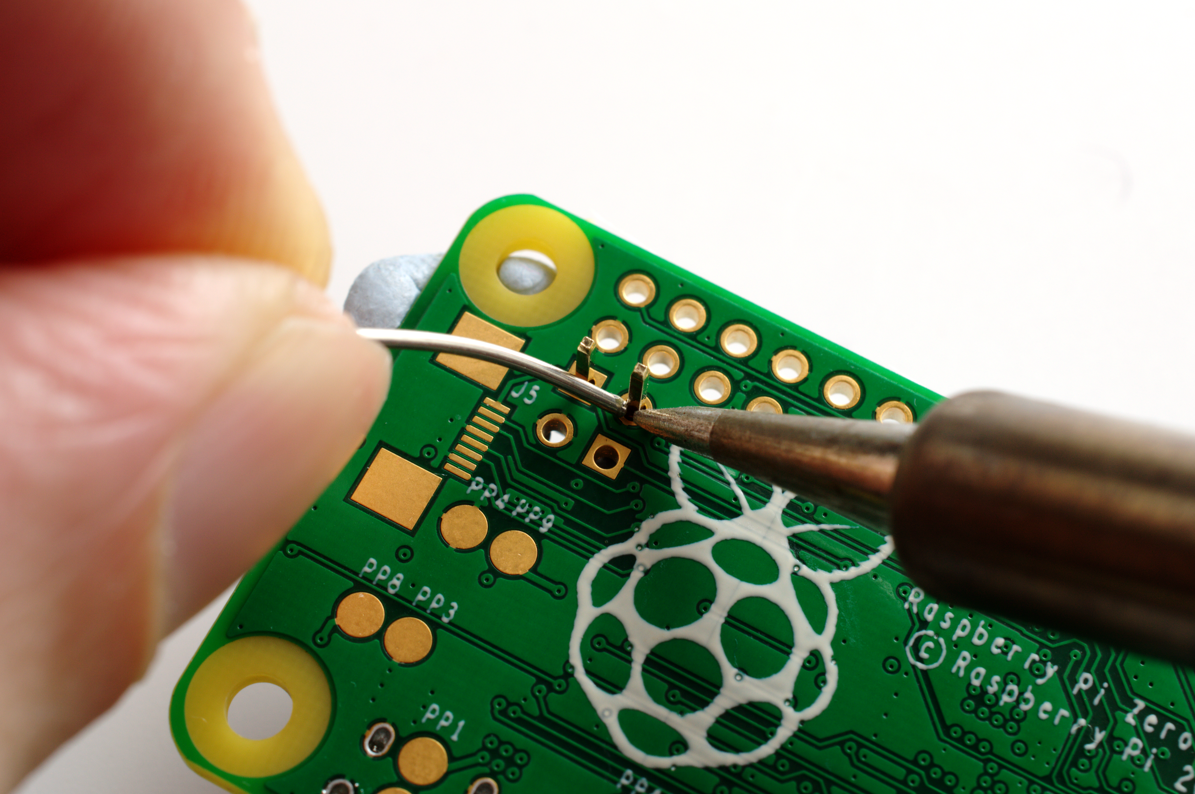 A project to solder a momentary switch to a Raspberry Pi Zero's 'RUN' header, applicable to all modern Raspberry Pi models.